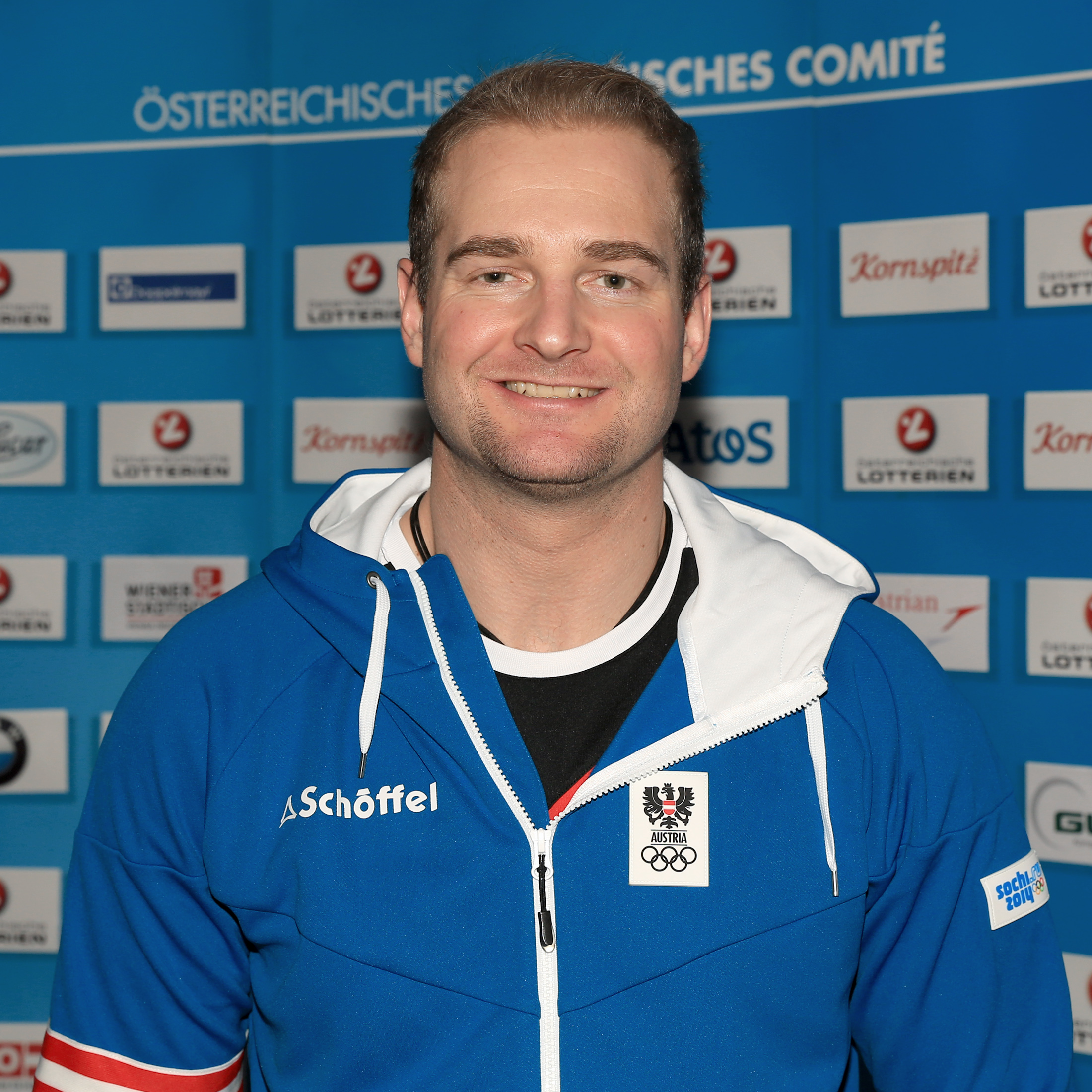 Georg Streitberger at the outfitting of the Austrian team for the 2014 Winter Olympics (Hotel Marriott in Vienna, Austria.